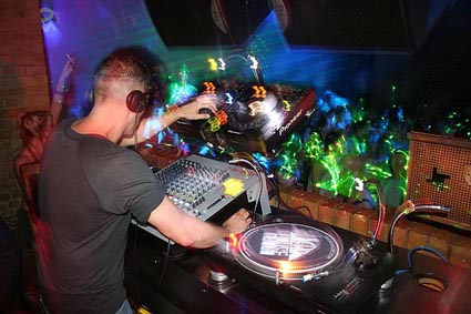 Ariel (DJ) in London's Fabric nightclub during the summer of 2006.